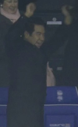 Carson Yeung captured from the Kop stand against Wolverhampton Wanderers in February 2010.